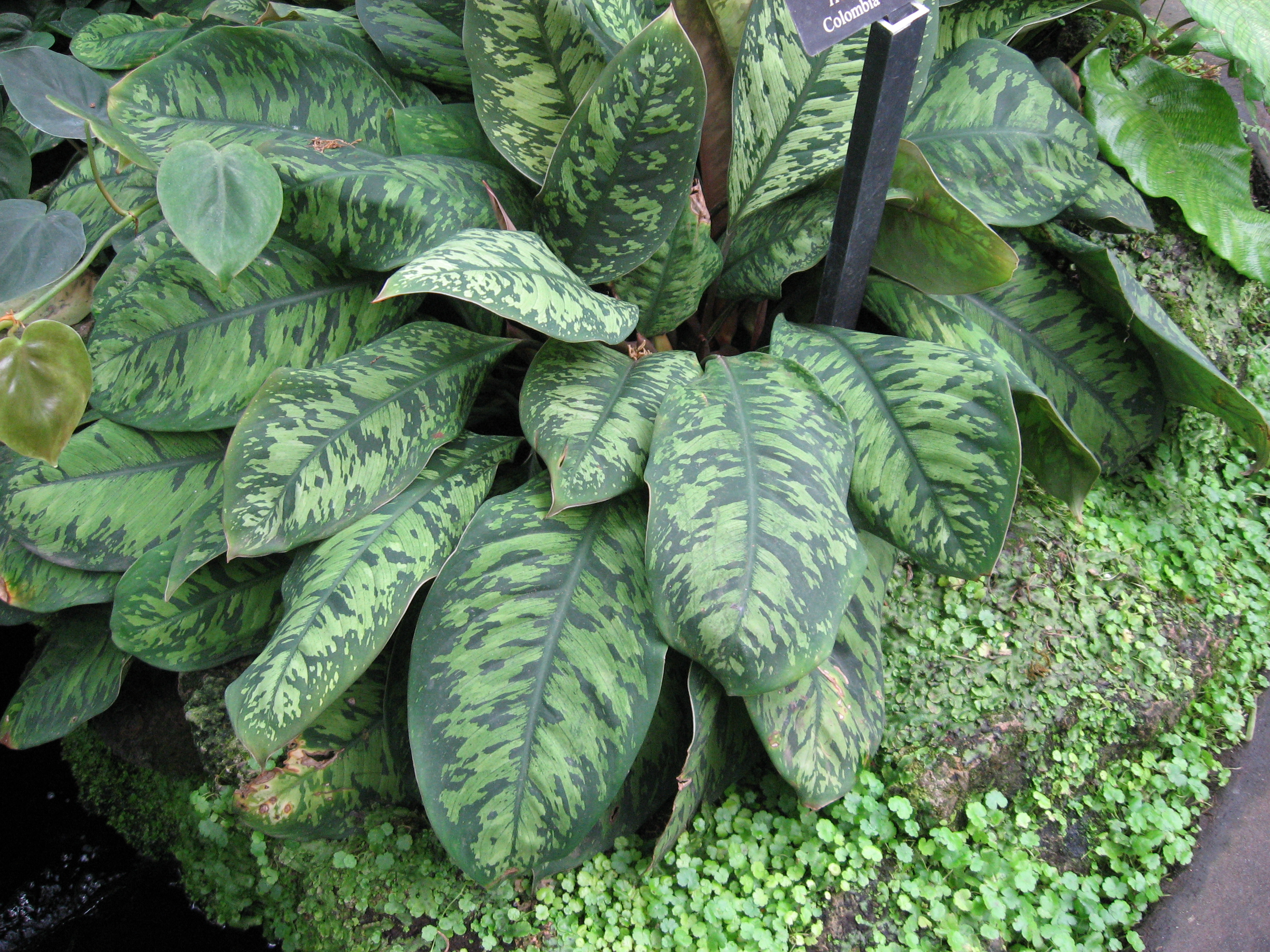 A picture of Homalomena wallisii.